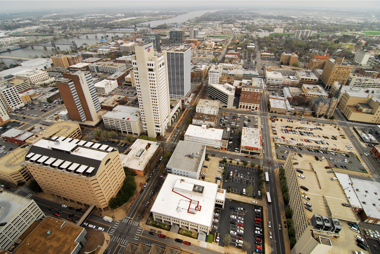 Downtown Little Rock in March 2011 from the roof of the tallest building downtown.